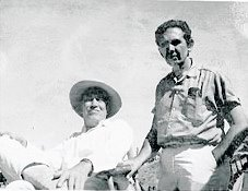 Photo of artist Fred Sexton and director John Huston in Mexico during the 1960's.